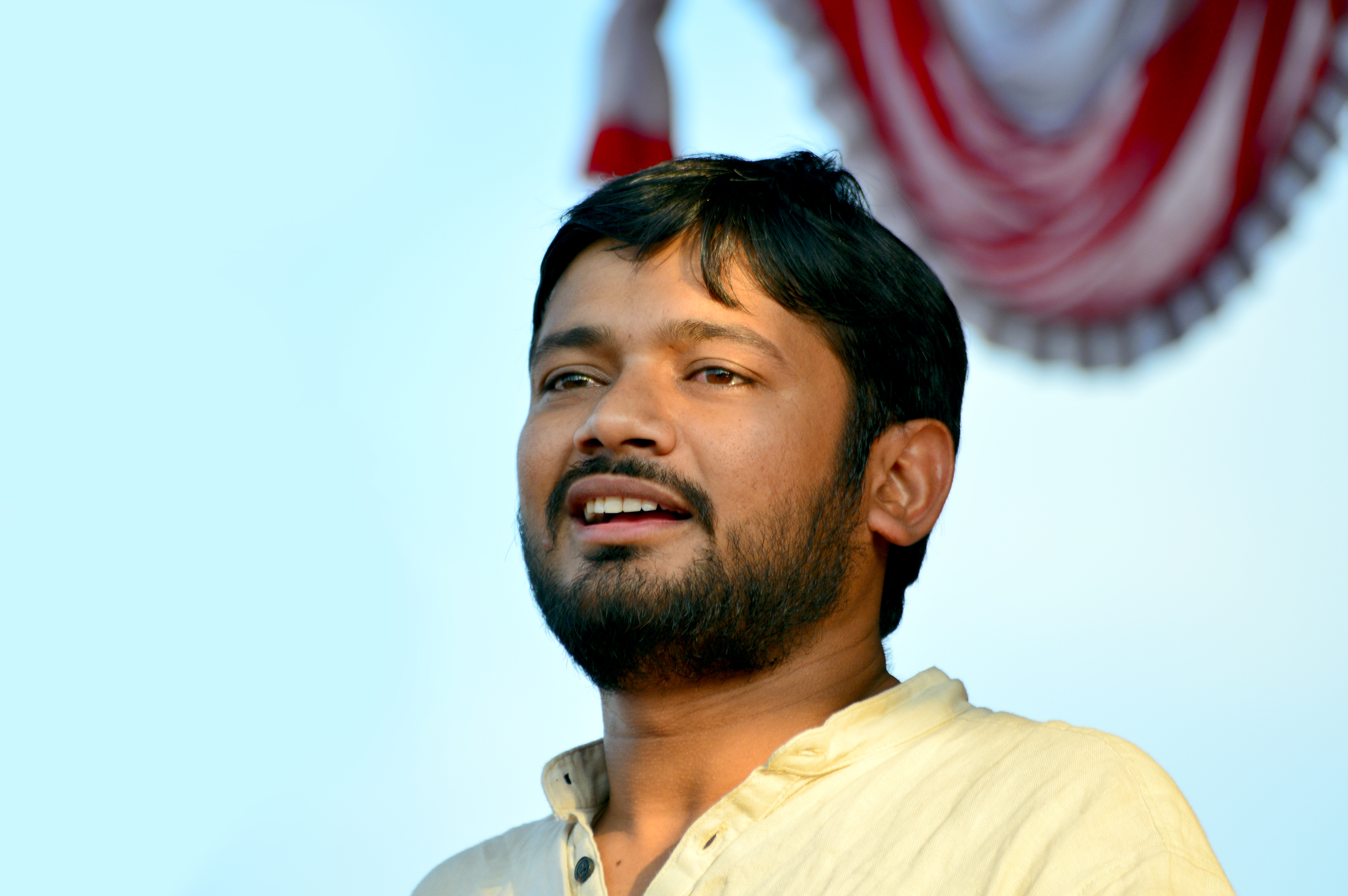 Kanhaiya Kumar is the current President of Jawaharlal Nehru University Students' Union. He is also a leader of the All India Student Federation (AISF), the student wing of the Communist Party of India (CPI).